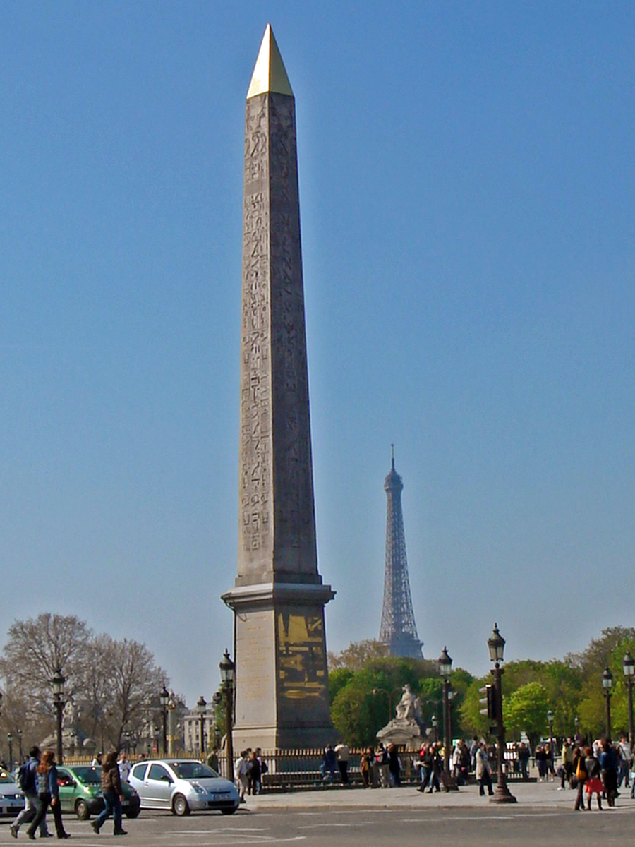 Obélisque de la Concorde (Luxor Obelisk), Paris, France